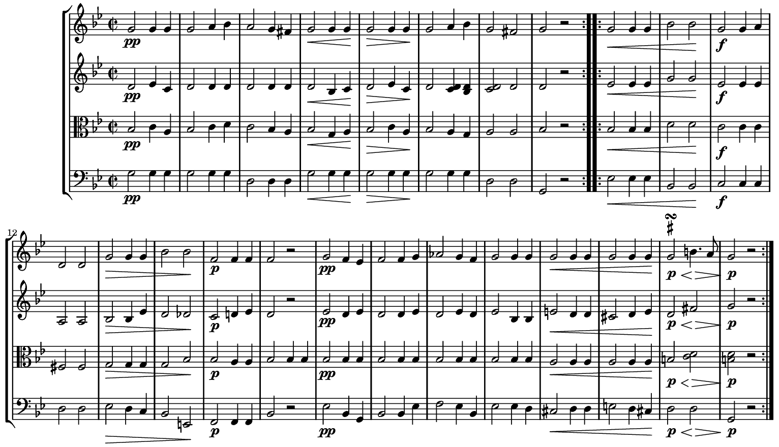 Death and the Maiden Quartet - Andante